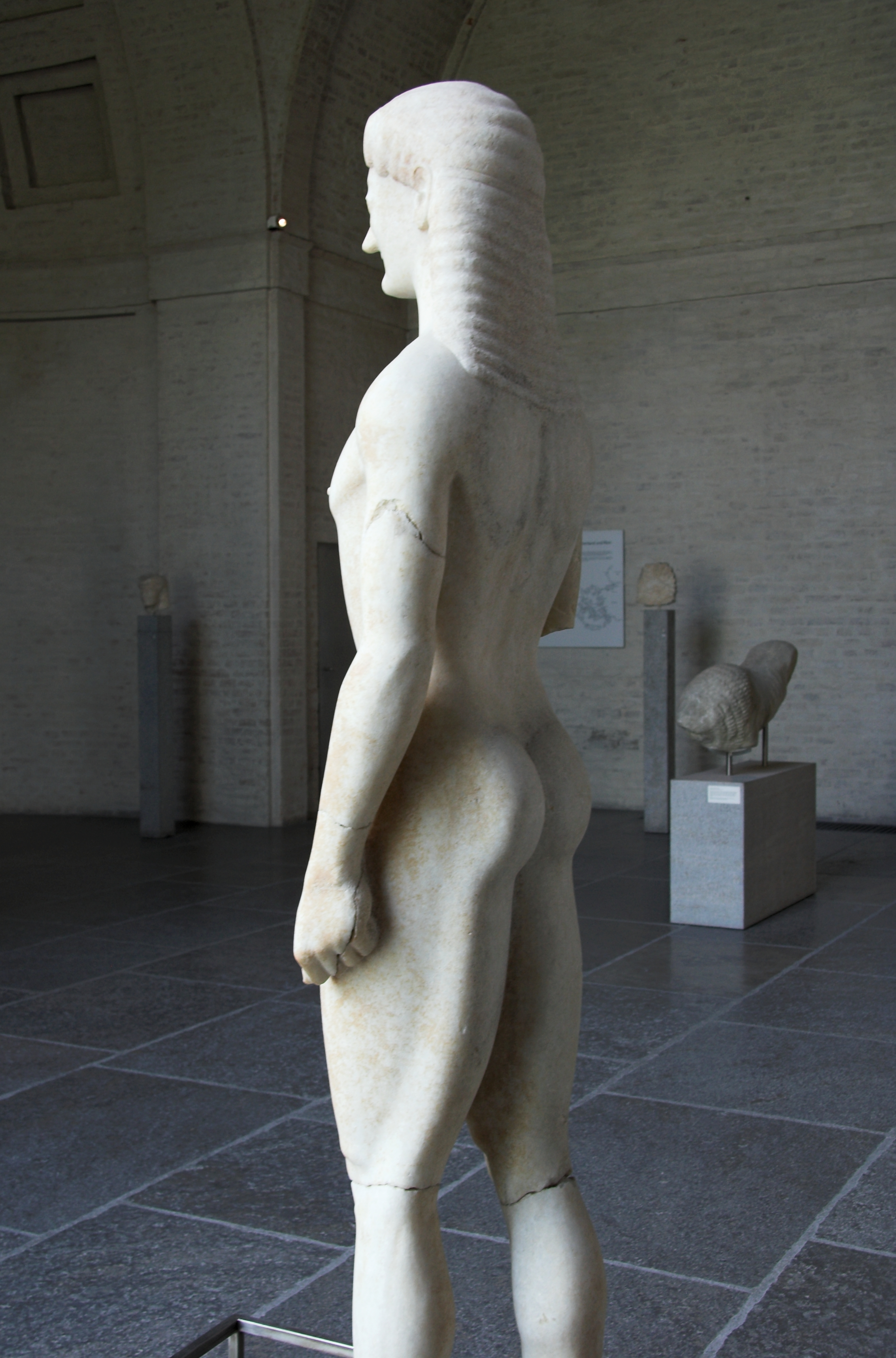 Kouros of Tenea, marble, 560-550 BC. Found in the cemetery of the ancient city Tene (near Athikion, between Corinth and Mycenae) in the Peloponnese. Glyptothek Munich, Inv. N. 168.